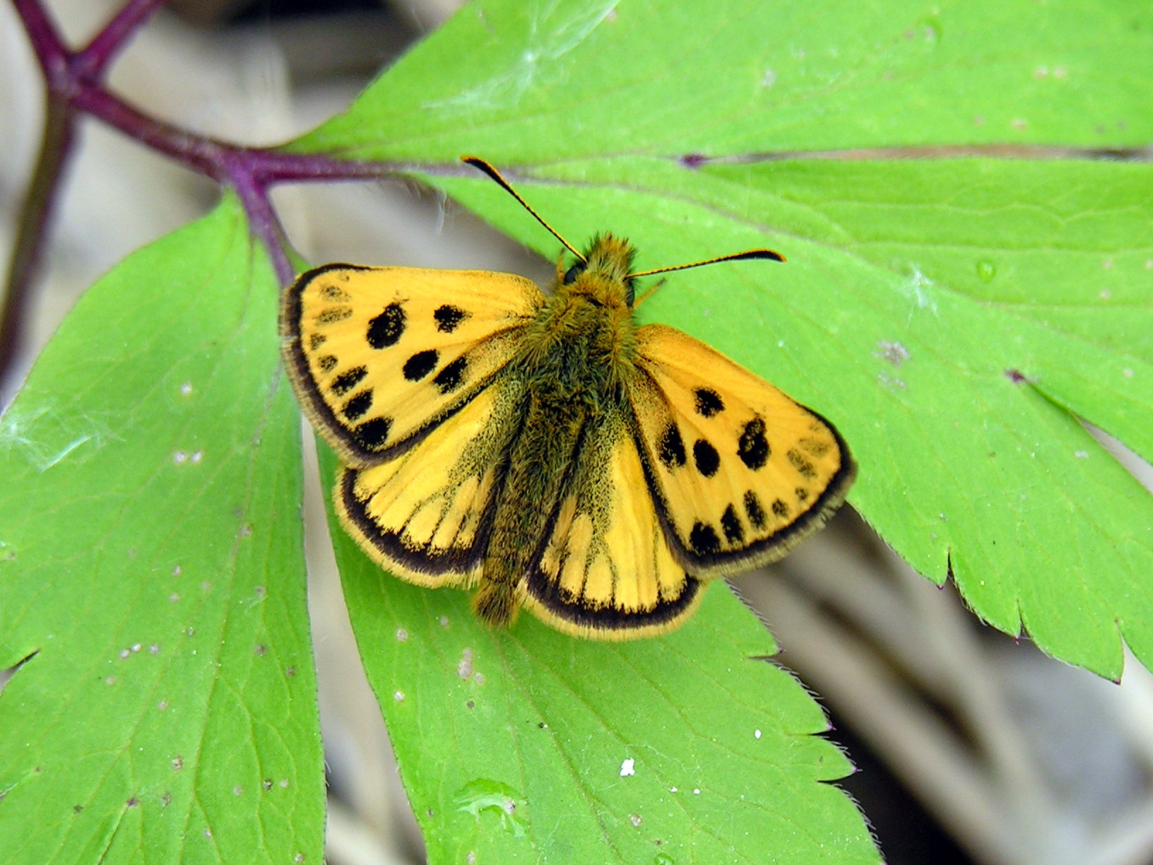 Carterocephalus silvicola (C. silvius) Photo by: Algirdas, 27 May 2006, Lithuania